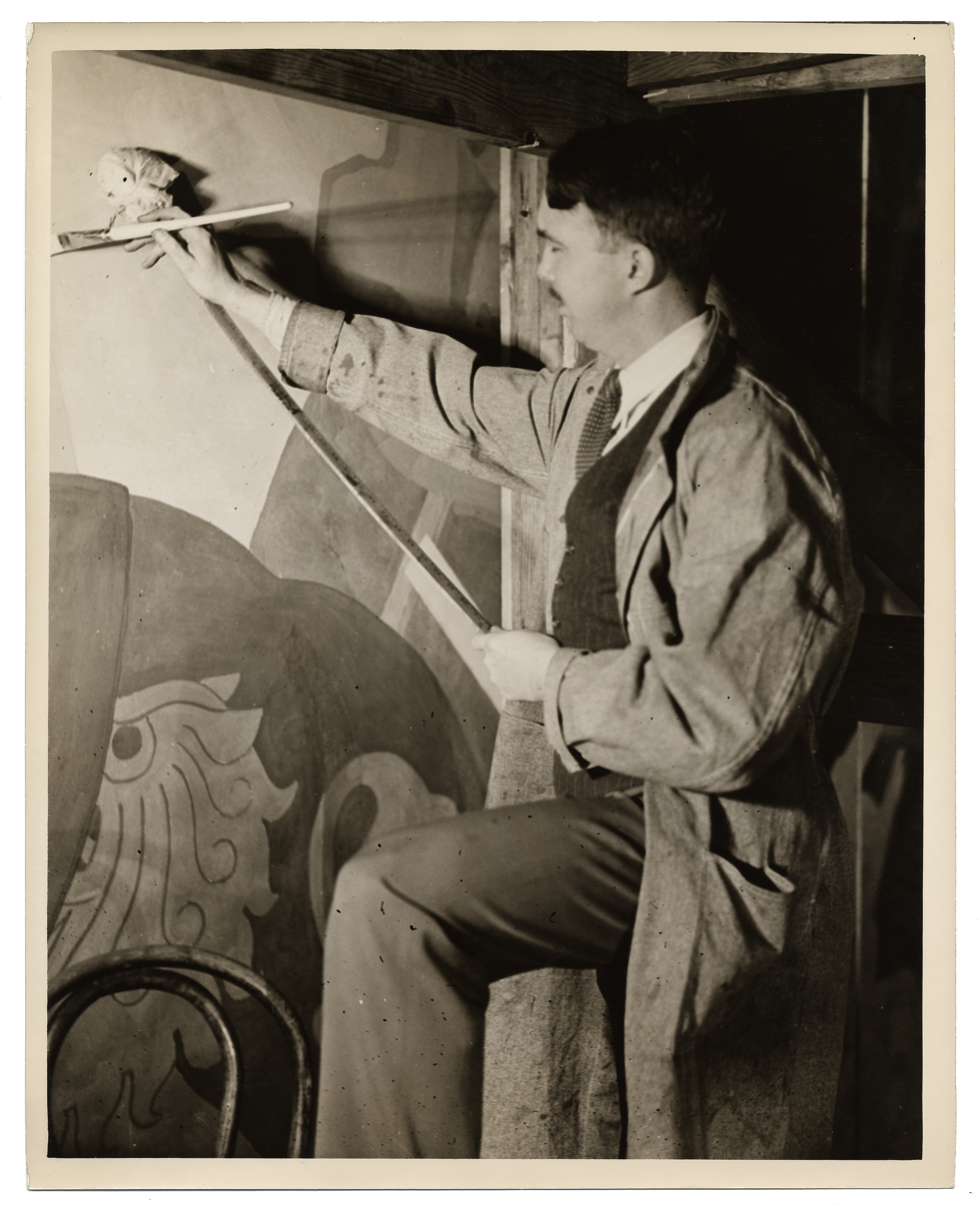 Johnson working on mural.